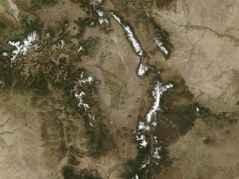 Satellite image of the San Luis Valley — in southern Colorado and northern New Mexico, Southwestern U.S.